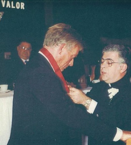 Peter T. DeMarco receiving the Italian-American medal of valor.